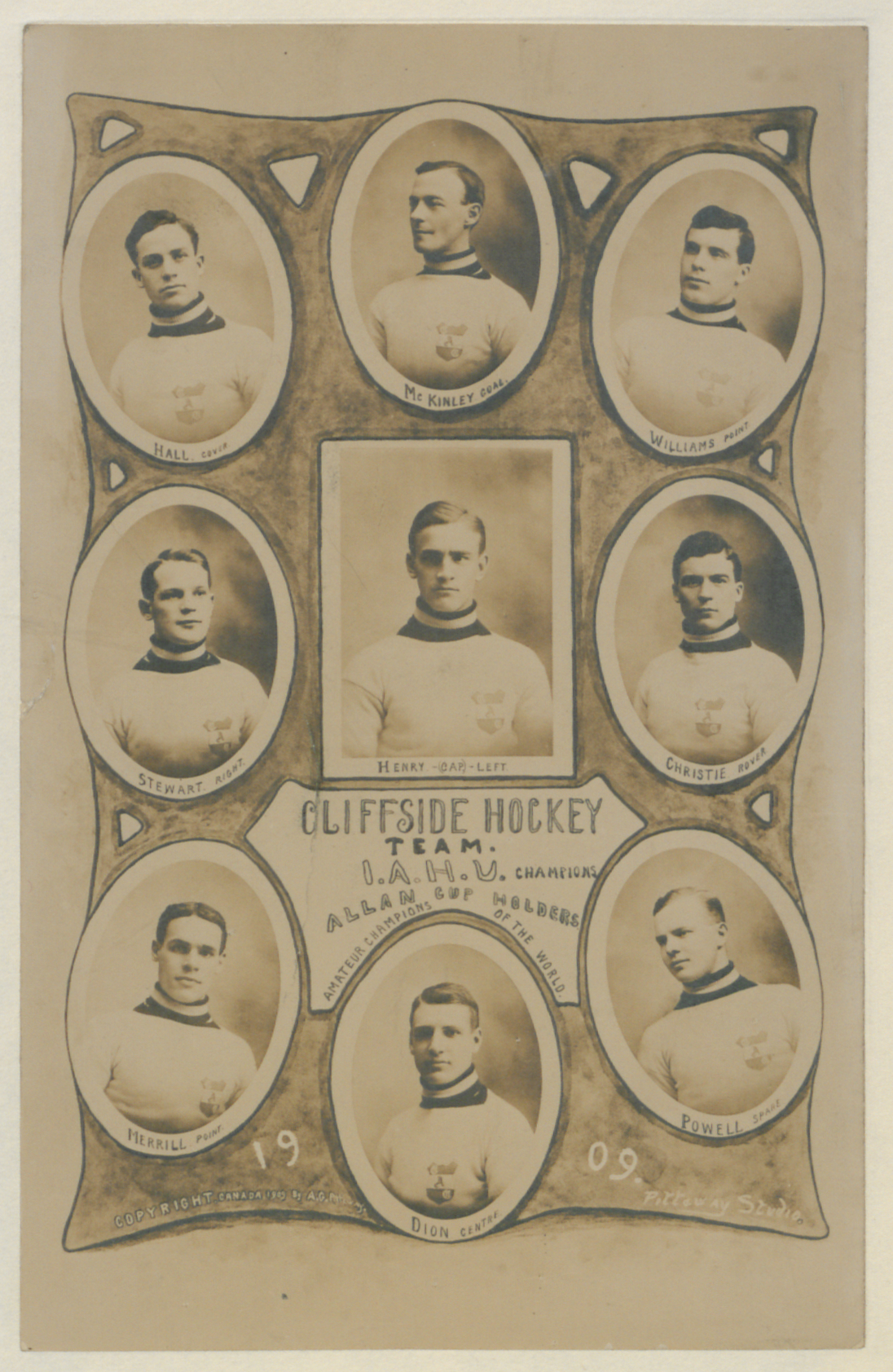 Cliffside Hockey Team I.A.H.U. team champions, Allan Cup holders, amateur champions of the world, 1909. The Interprovincial Amateur Hockey Union (IAHU) began play in January 1909 with a four-team league of the Montreal Victorias, Montreal Hockey Club, Ottawa Cliffsides and Toronto AAC. The new championship trophy for Canadian amateur teams was donated by Sir Montagu Allan, and the Ottawa Cliffsides were the first IAHU champions.